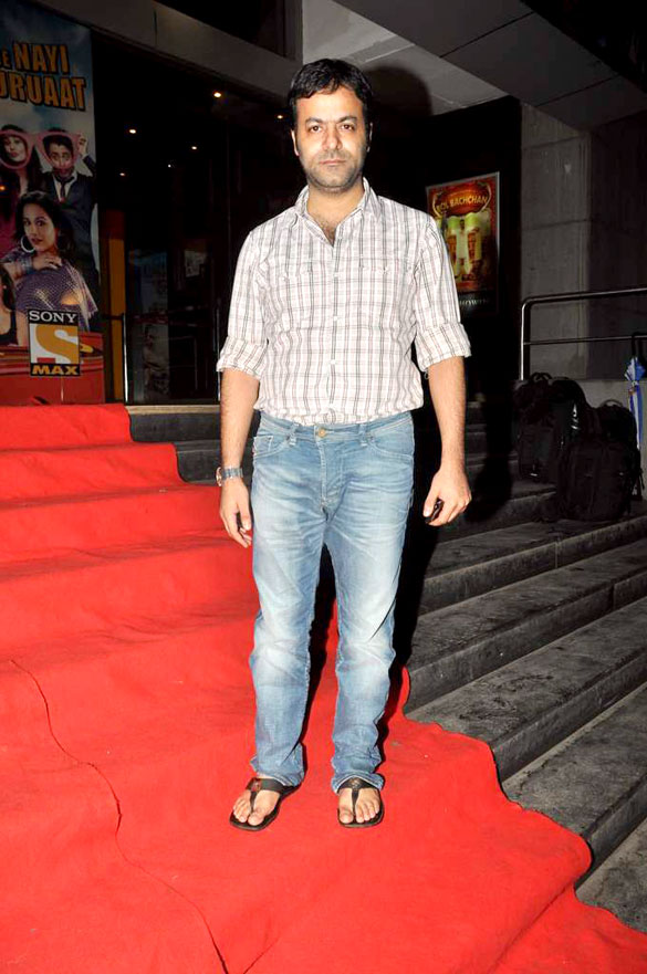 Tarun Mansukhani at the special screening of 'Bol Bachchan'